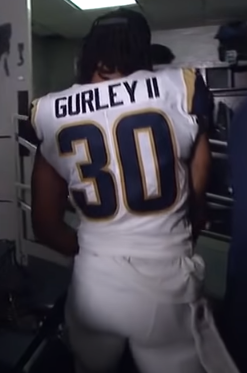 In 2019